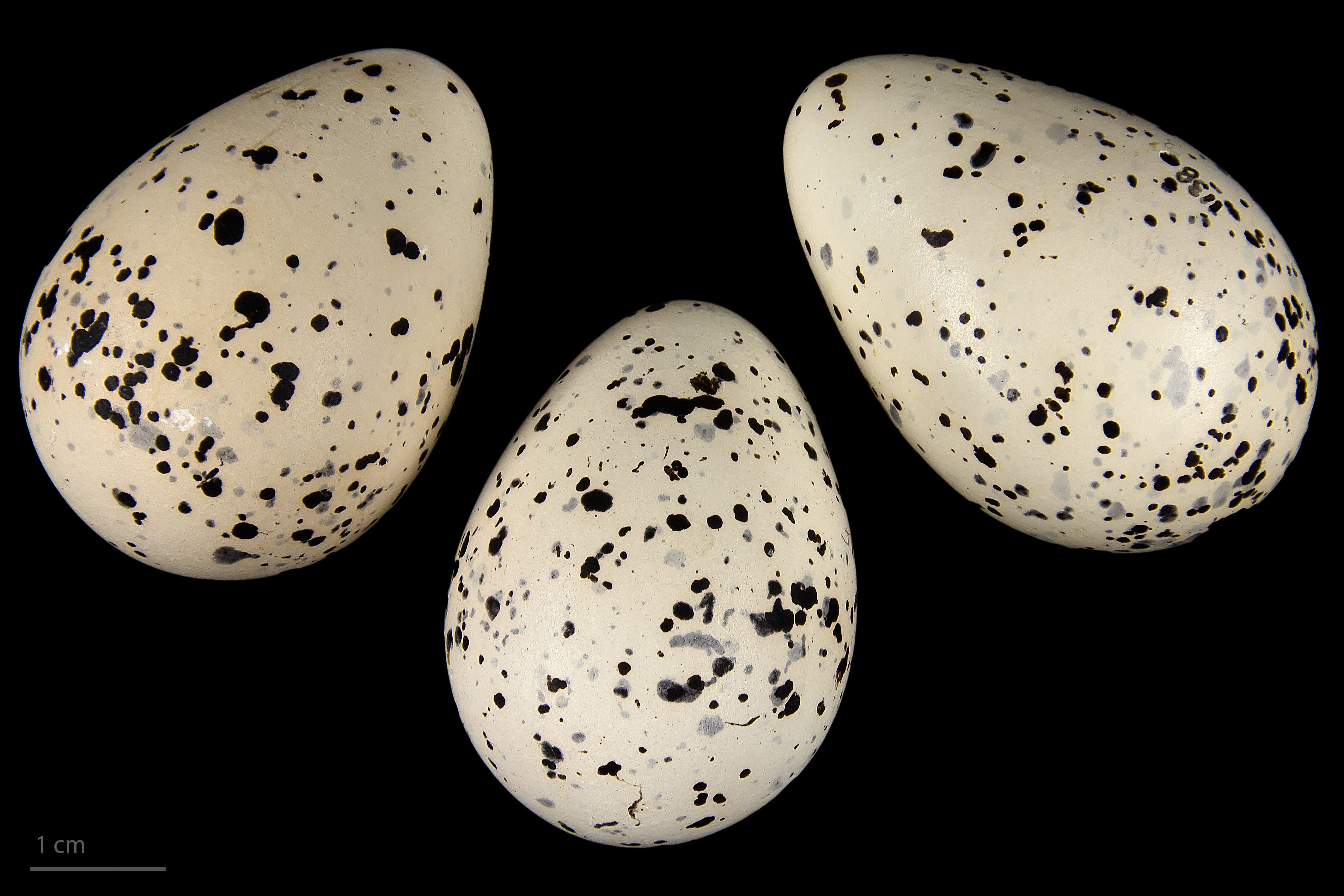 Eggs of Charadrius hiaticula hiaticula Three specimens of the same spawn ; collection of Jacques Perrin de Brichambaut.